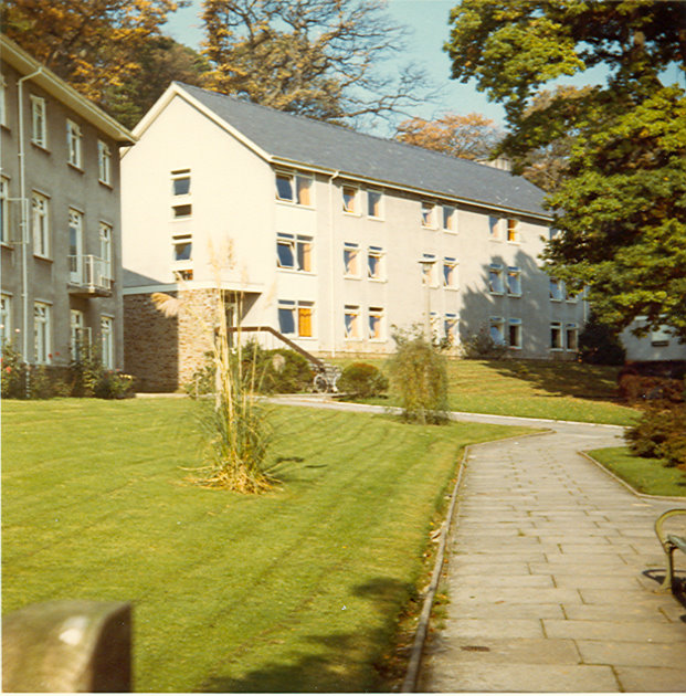 The women's hall was behind and to the left.